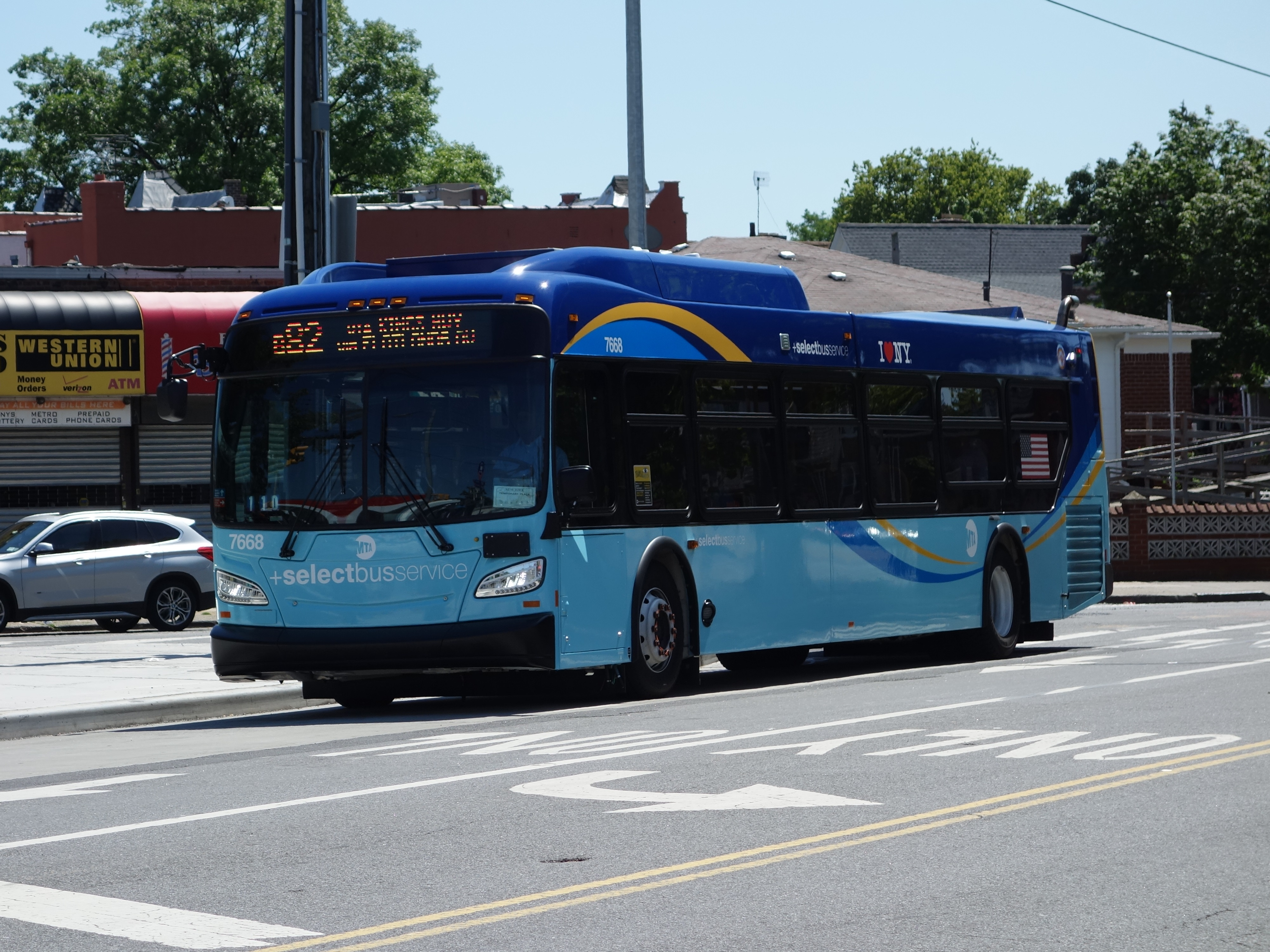 A Spring Creek Towers (Starrett City)-bound B82 local bus stopped at a Greenstreets triangle at the southwest corner of Flatlands Avenue, Utica Avenue, and Avenue K in Flatlands, Brooklyn. This New Flyer Xcelsior from the East New York Depot was delivered wrapped for Select Bus Service; however, SBS service on the B82 route was suspended by the MTA due to political opposition.